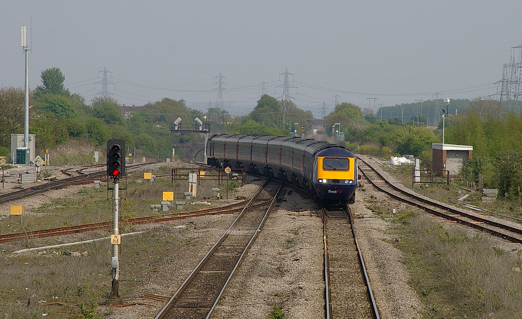 43063/43132 climbs out of the tunnel and goes through Severn Tunnel Junction railway station headed west on the South Wales Main Line.